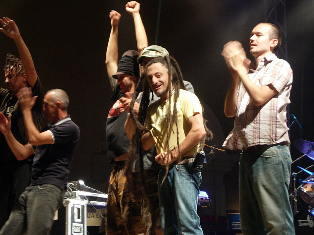 The italian reggae group Africa Unite